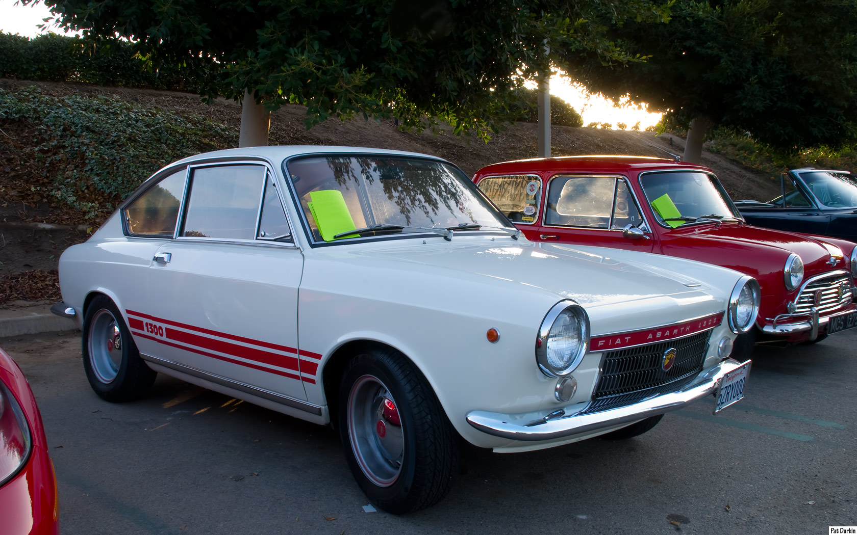 Cars & Coffee - Irvine, CA